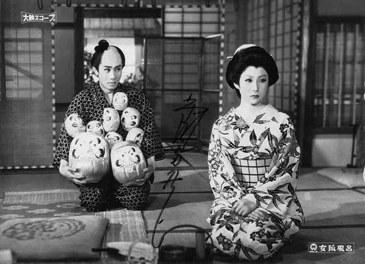 Studio still for 1958 Japanese movie The Female Fox Bath (女狐風呂 Megitsune Buro), featuring Raizō Ichikawa VIII (八代目市川雷蔵) and Michiko Saga (嵯峨美智子).